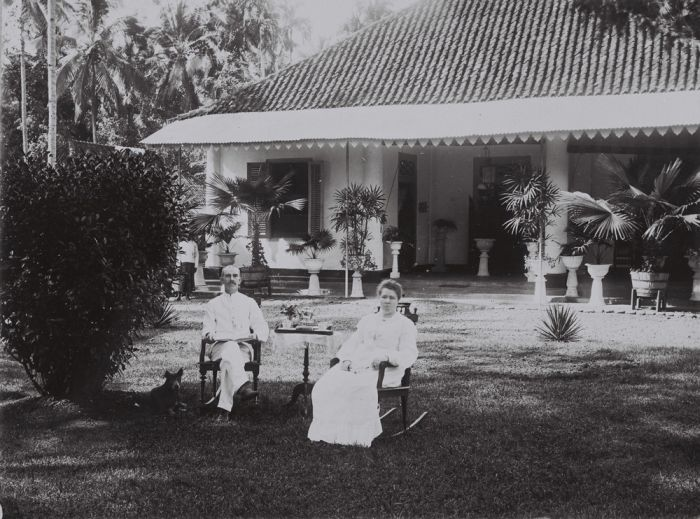 Henk and Anna Koorders drinking tea in the garden of their home in Purworejo, Java.